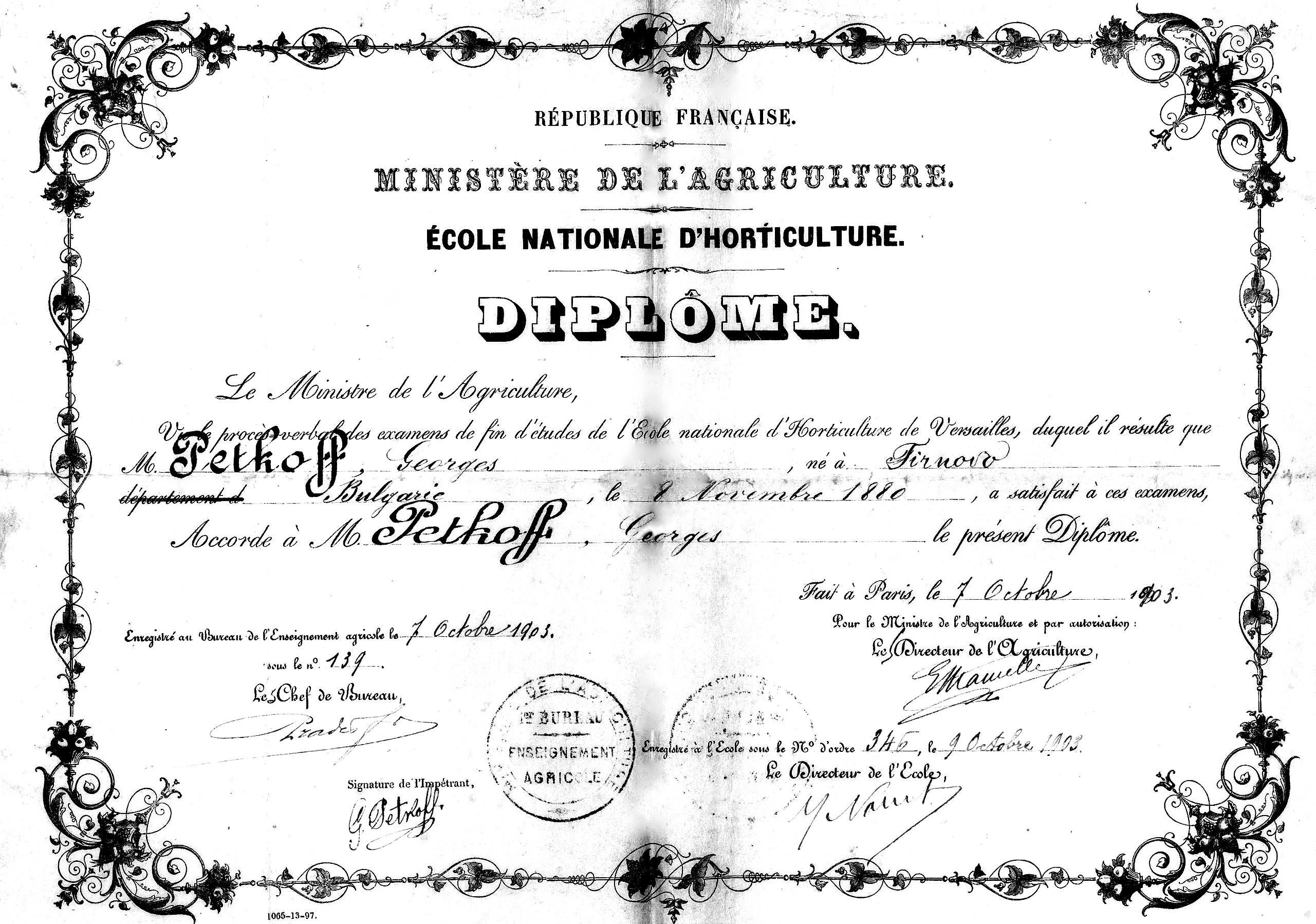 The diploma of Georgi Petkov, the first Bulgarian, who received academic education in landscaping, landscape architecture and pomology